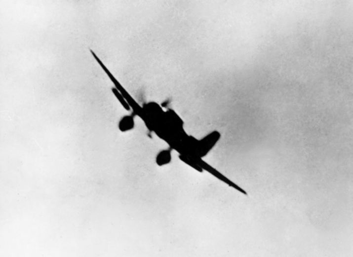 A Japanese Navy Type 99 carrier bomber (Aichi D3A1 "Val") in action during the attack on Pearl Harbor, Hawaii (USA).